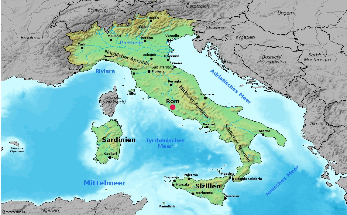 Map of Italy - Image history at de: (Note: the two first version refer to a CIA World Factbook map)